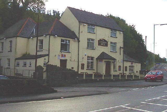 Navigation House, Abercynon. Navigation House predates the village which surrounds it. It was originally situated by the Glamorganshire Canal at the terminus of a tramway where, in 1804 Richard Trevithick demonstrated the world's first steam locomotive running on rails and hauling a load of 10 tons.